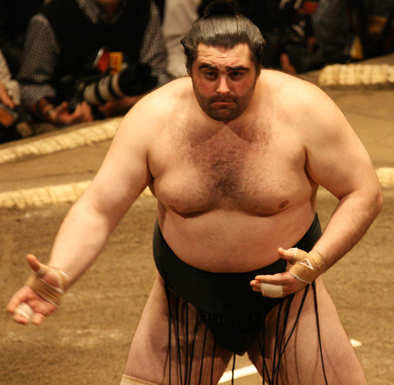 Kokkai (Oitekaze stable) during the May 2008 tournament.